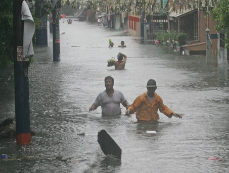 Villages under four feet of flooding